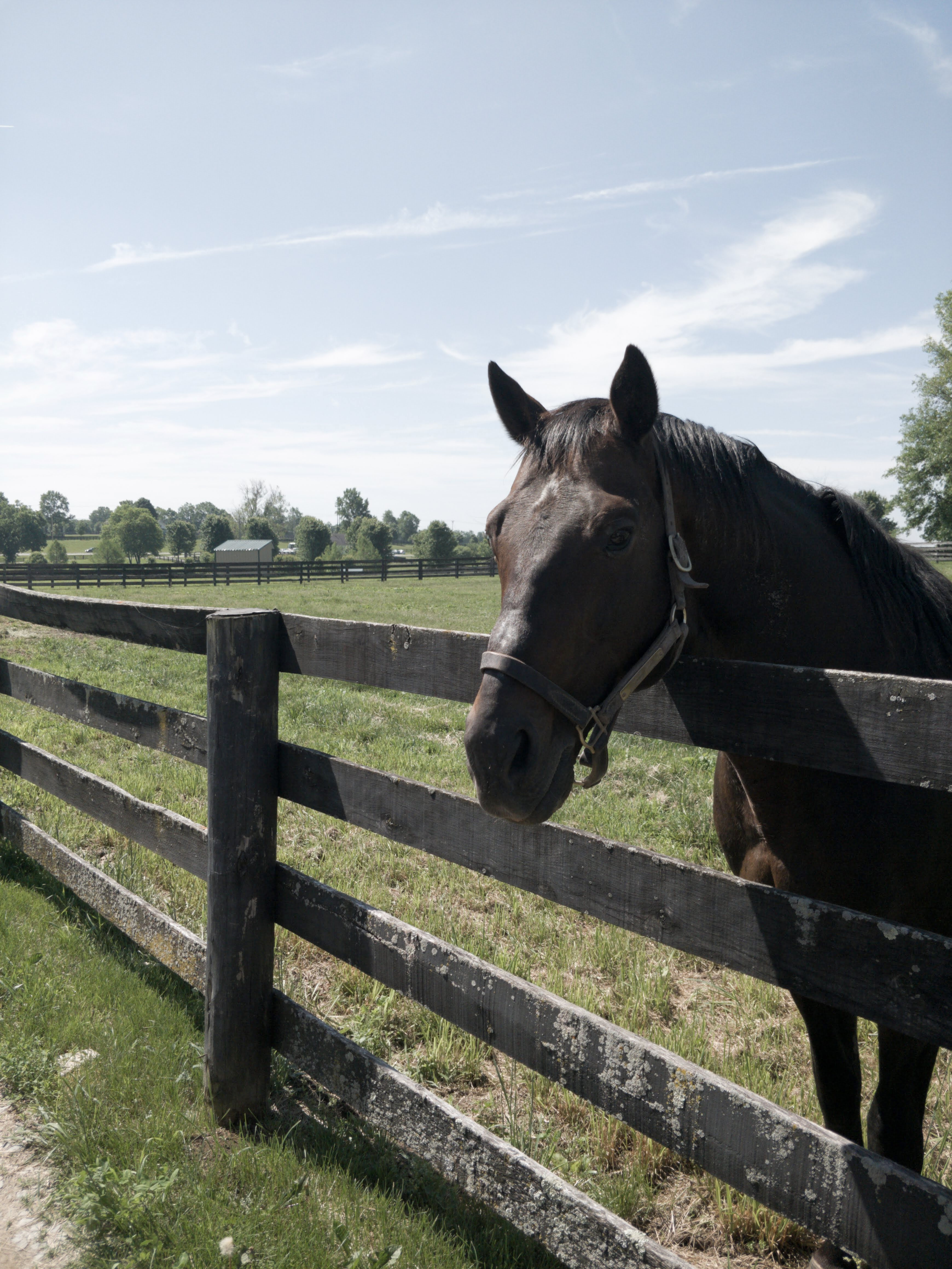 At Old Friends - 1997 Belmont Feel free to use this photo however you like, just attribute . Thanks!